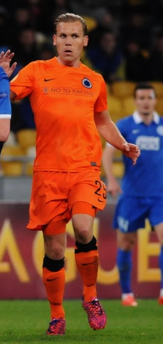 Ruud Vormer